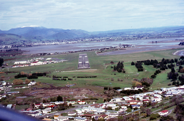 Arriving from Reefton